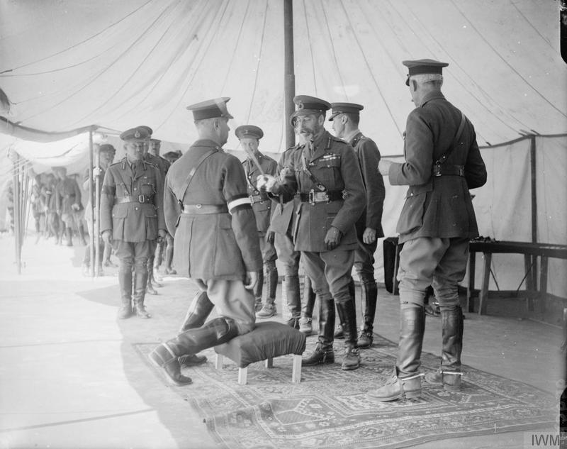 The Royal Visits To the Western Front, 1914-1918 King George V conferring the honour of Knighthood on General Arthur William Currie, Commander of the Canadian Corps. Albert, 12 July 1917.